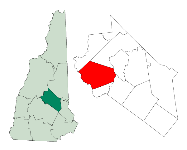 Map of a municipality in Belknap County, New Hampshire